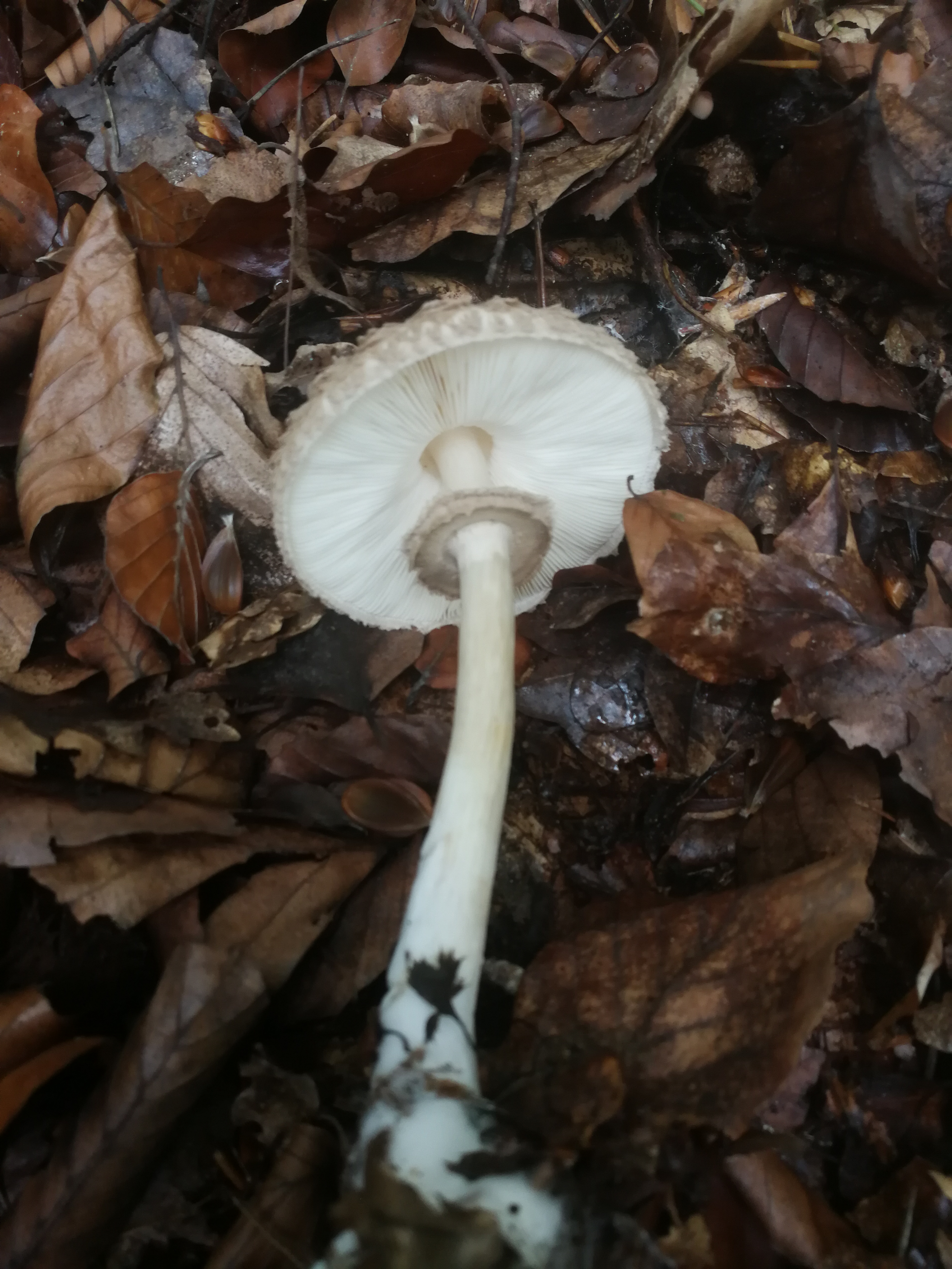 Chlorophyllum olivieri